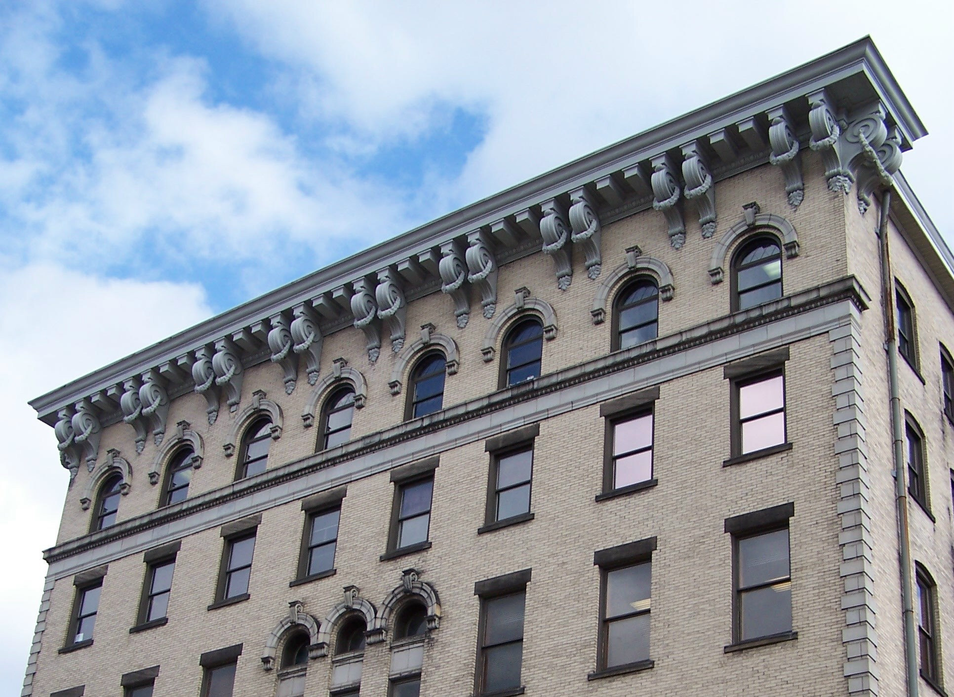 An example of a cornice along the top of the Wheeling-Pittsburgh Steel Building in downtown Wheeling, West Virginia.